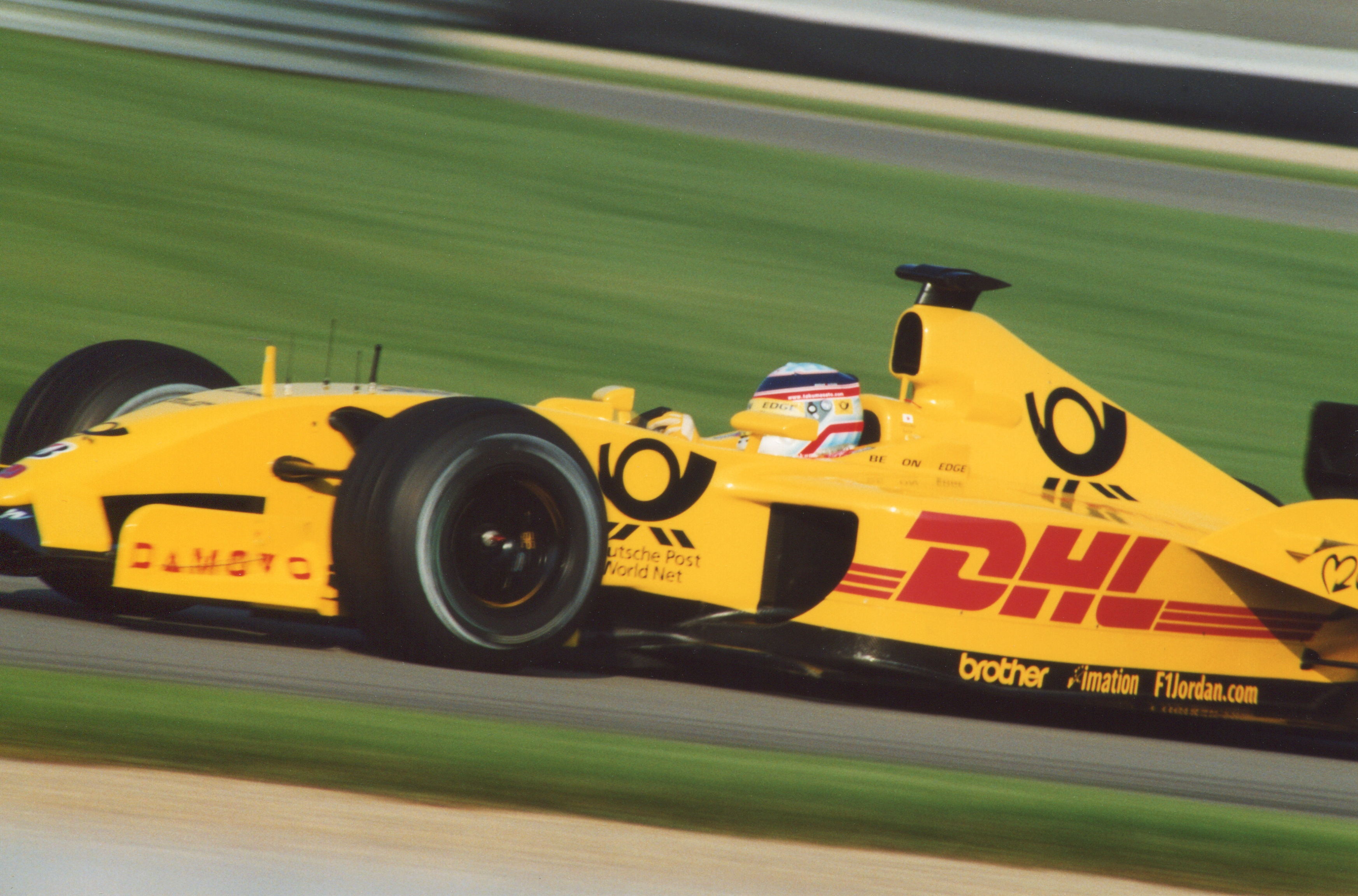 Takuma Sato driving for Jordan Grand Prix during practice for the United States Grand Prix at Indianapolis in 2002